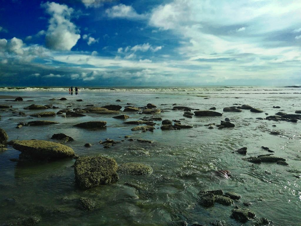 Coral rocks at Inani beach in cox's bazaar bangladesh #wleBangladesh